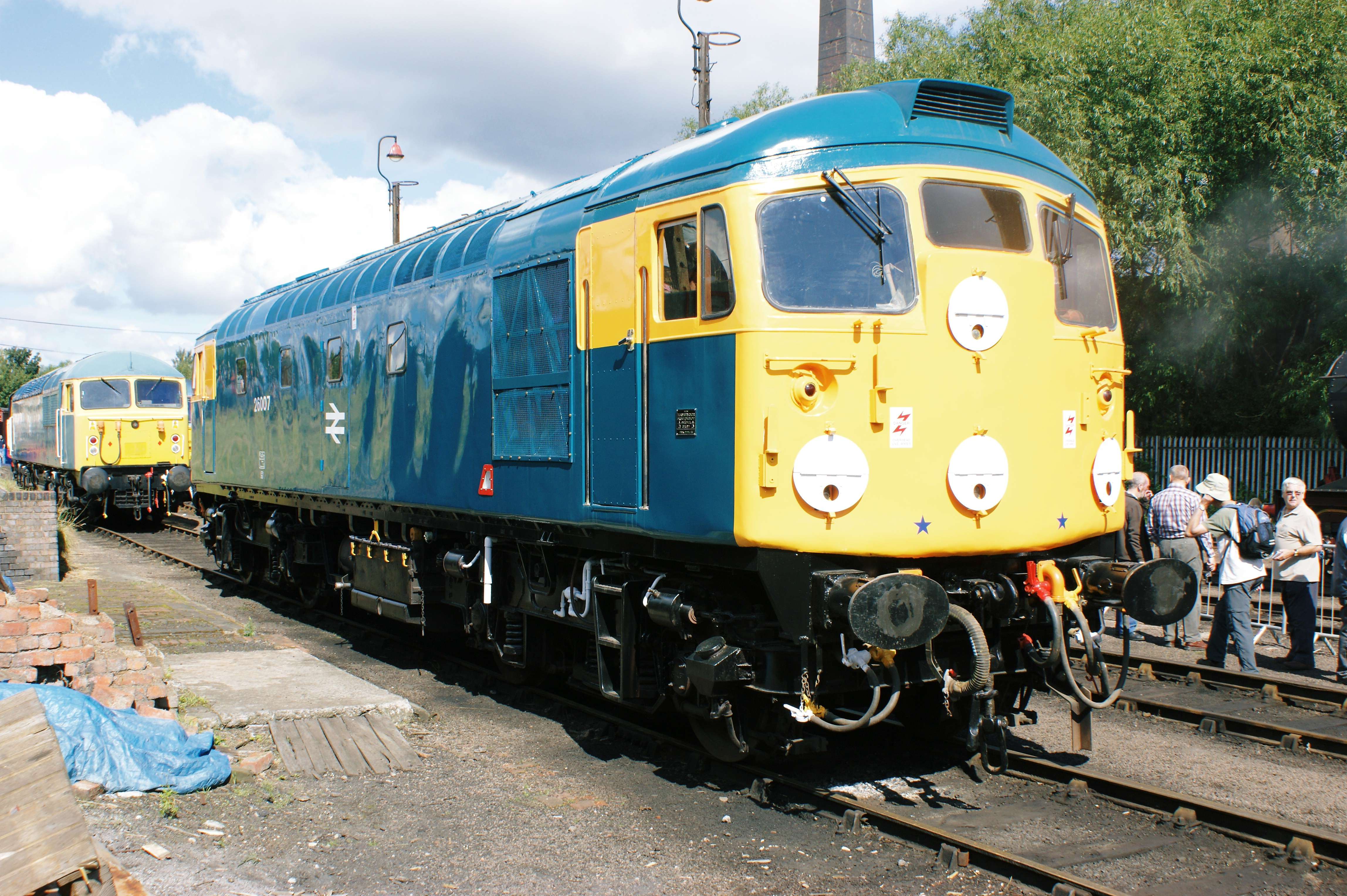 Preserved BRCW Class 26/0 1,160 hp Bo-Bo No.26 007 (ex-D5300) in BR blue livery and wrap-around all-yellow front end at Barrow Hill, 8/08.